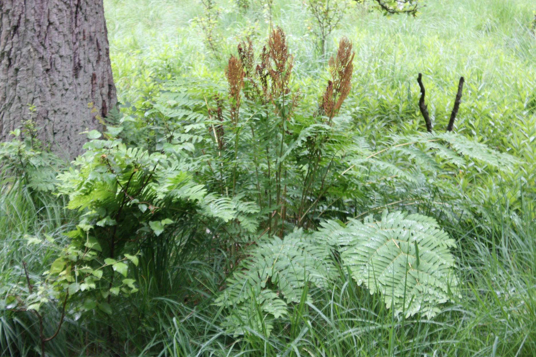 Osmunda regalis, Poland, Gać (gmina Główczyce) near forest road, Słowiński Park Narodowy.